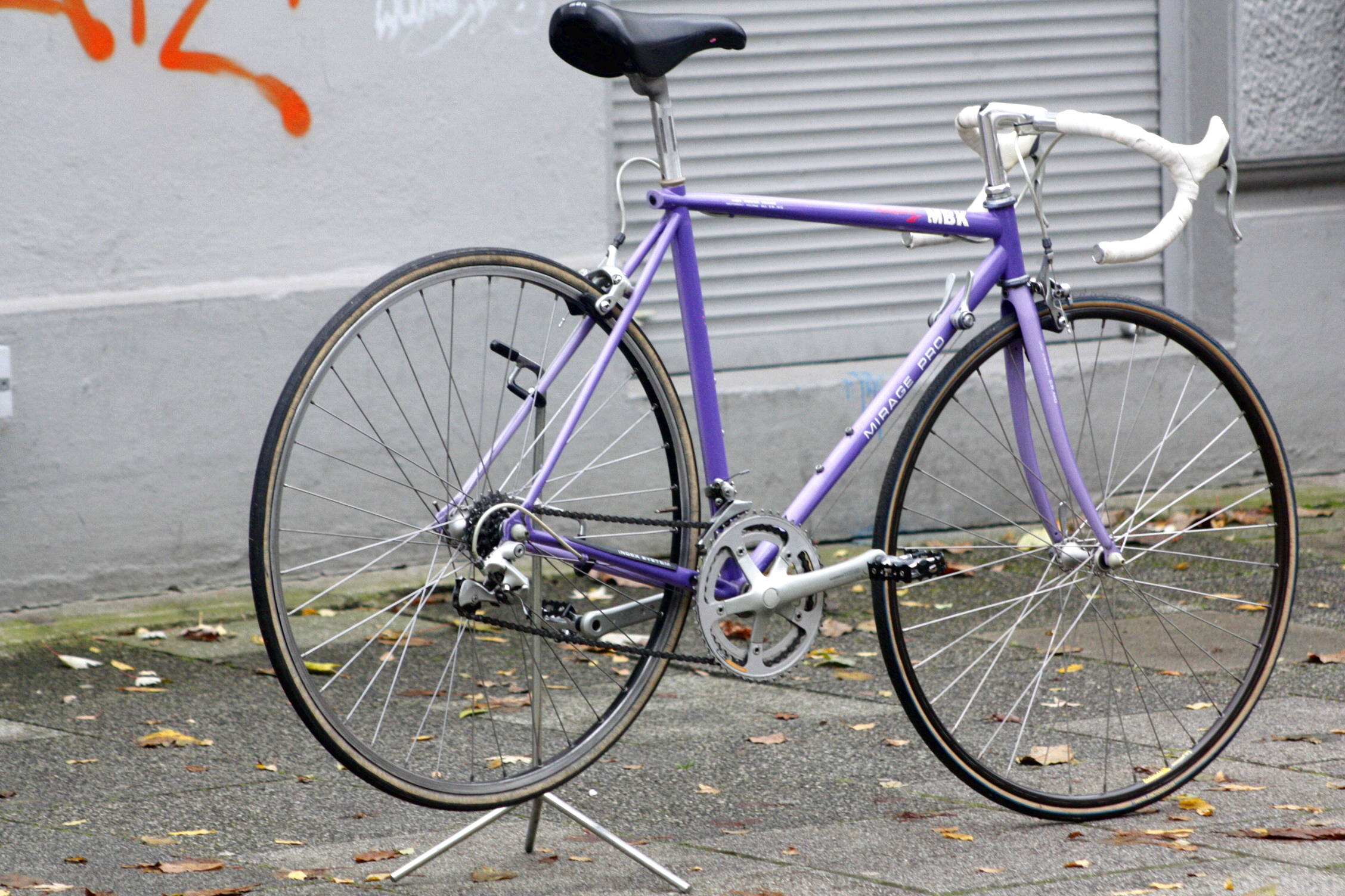 Motobecane Roadbike CroMo frame 490mm